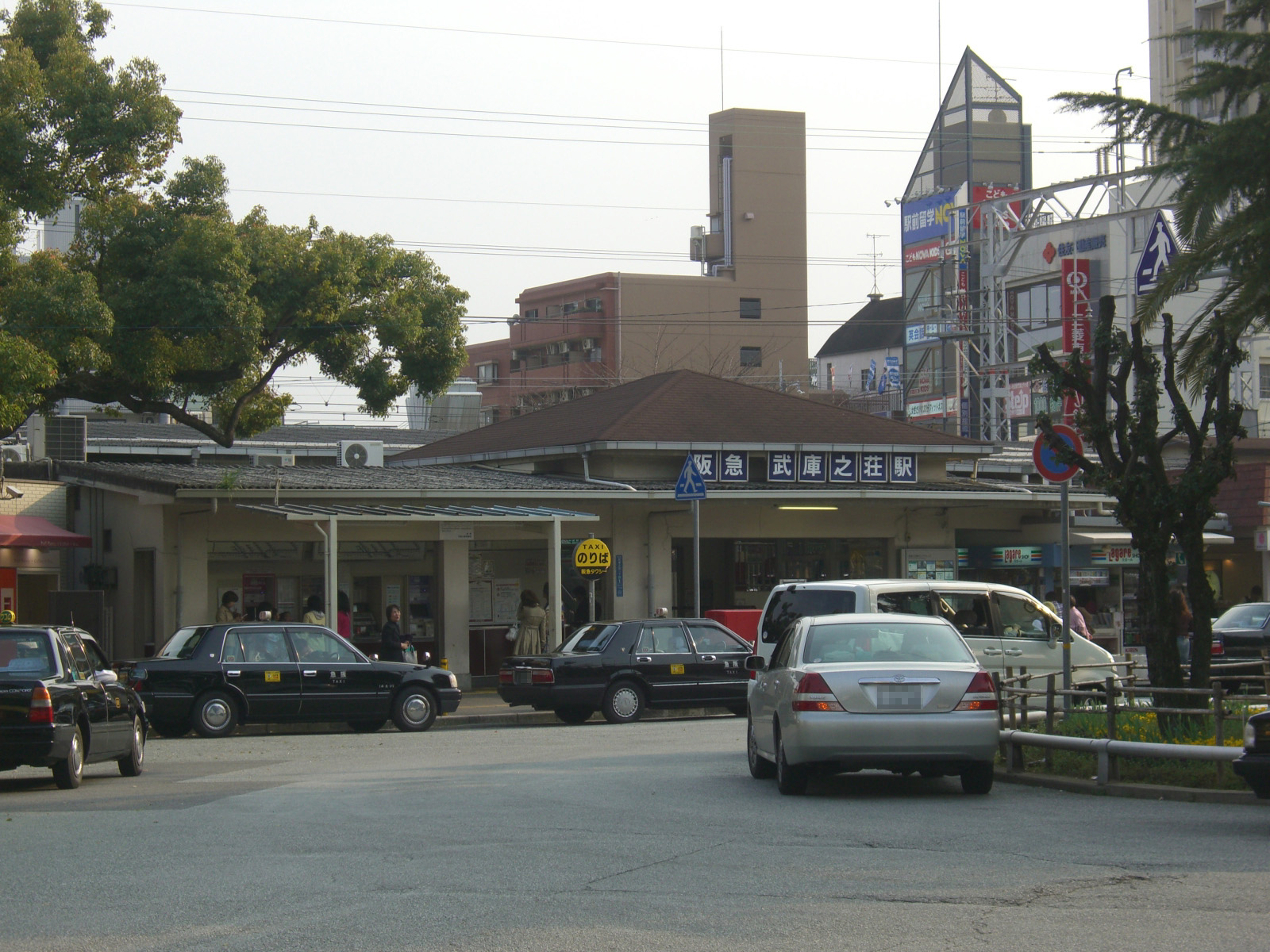 Hankyu Railway Kobe Main Line Mukonoso Station Building North Gate（Distant view）